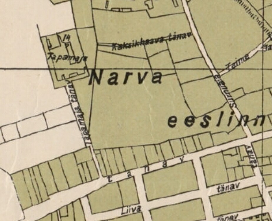 Tapamaja and Tapamaja street. Old map of Narva. 1929